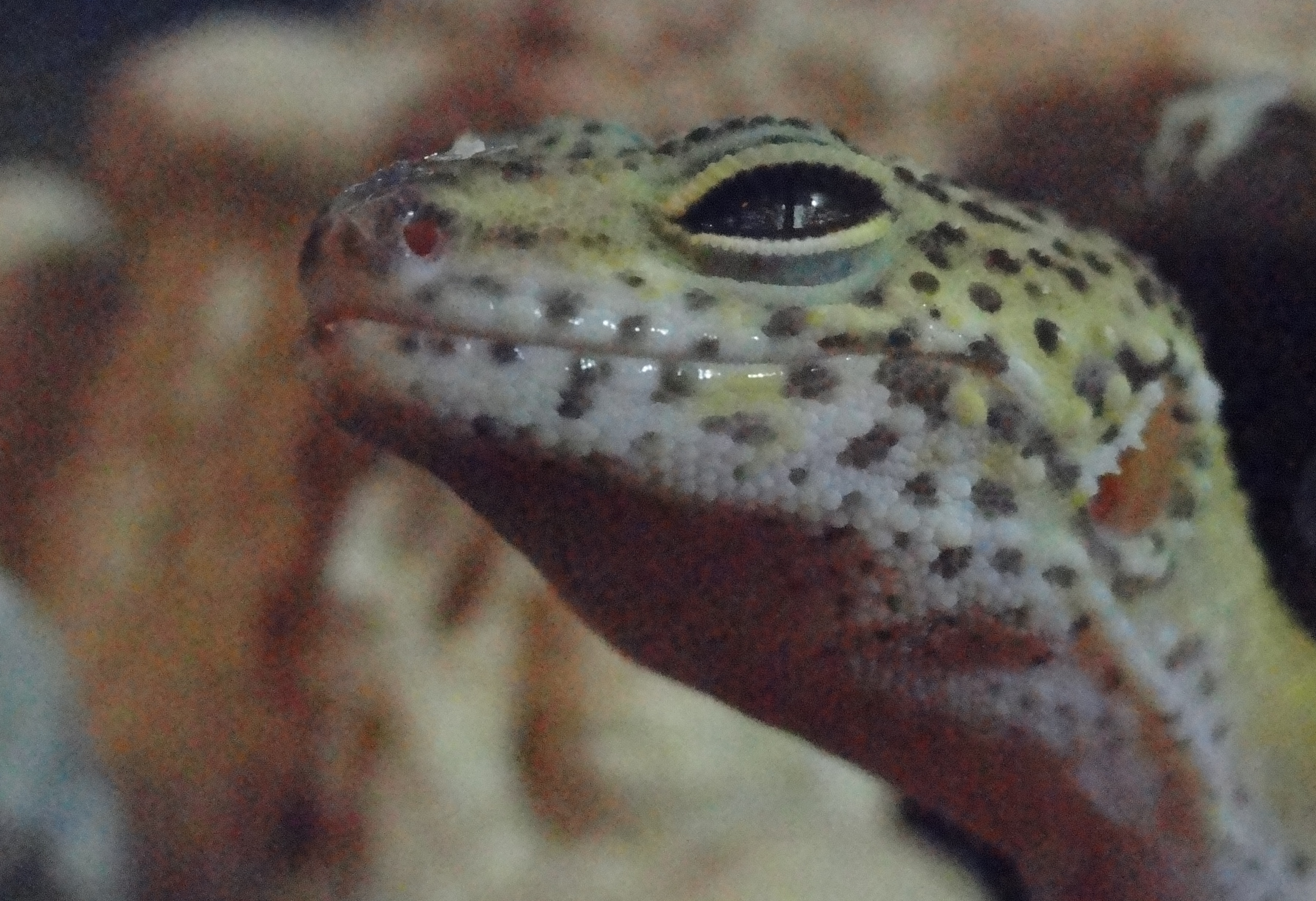 A close up image of my juvenile leopard gecko. She's full of personality.